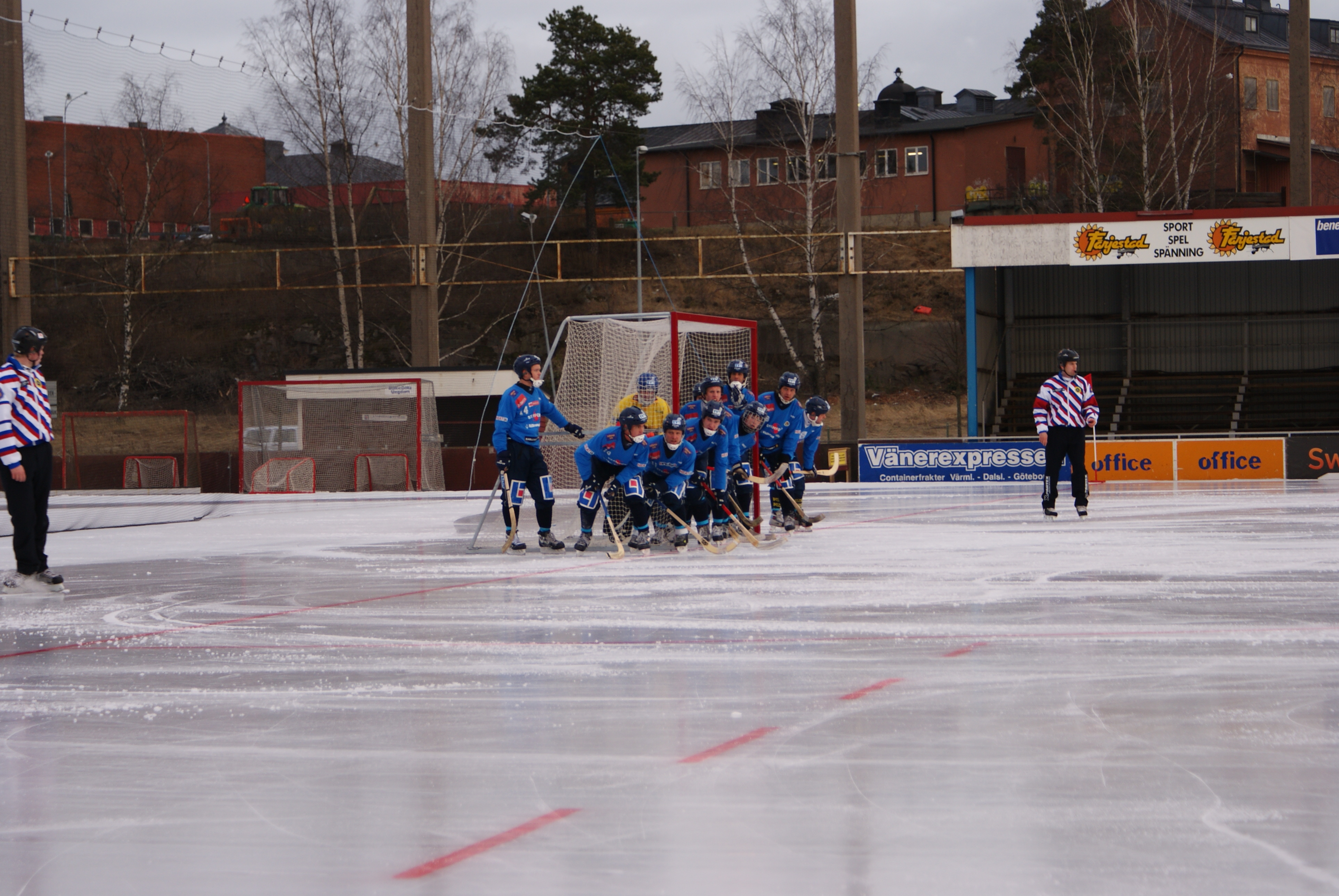 BolticGöta before a corner versus Gustavsberg.